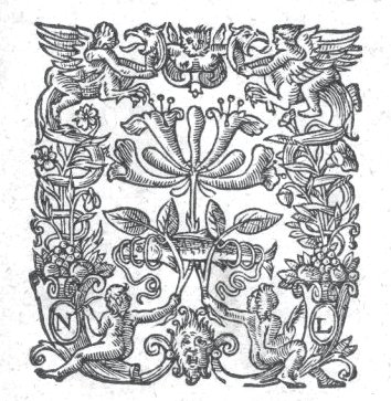 Device of the publisher Nicholas Ling from the title page of Hamlet (1603)